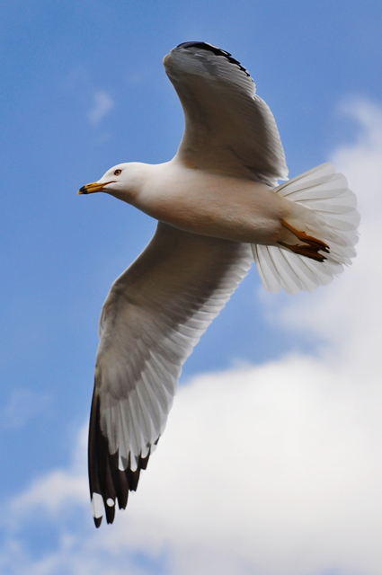 Ring-billed Gull (Larus delawarensis), adult in flight, photographed by Jiyang Chen